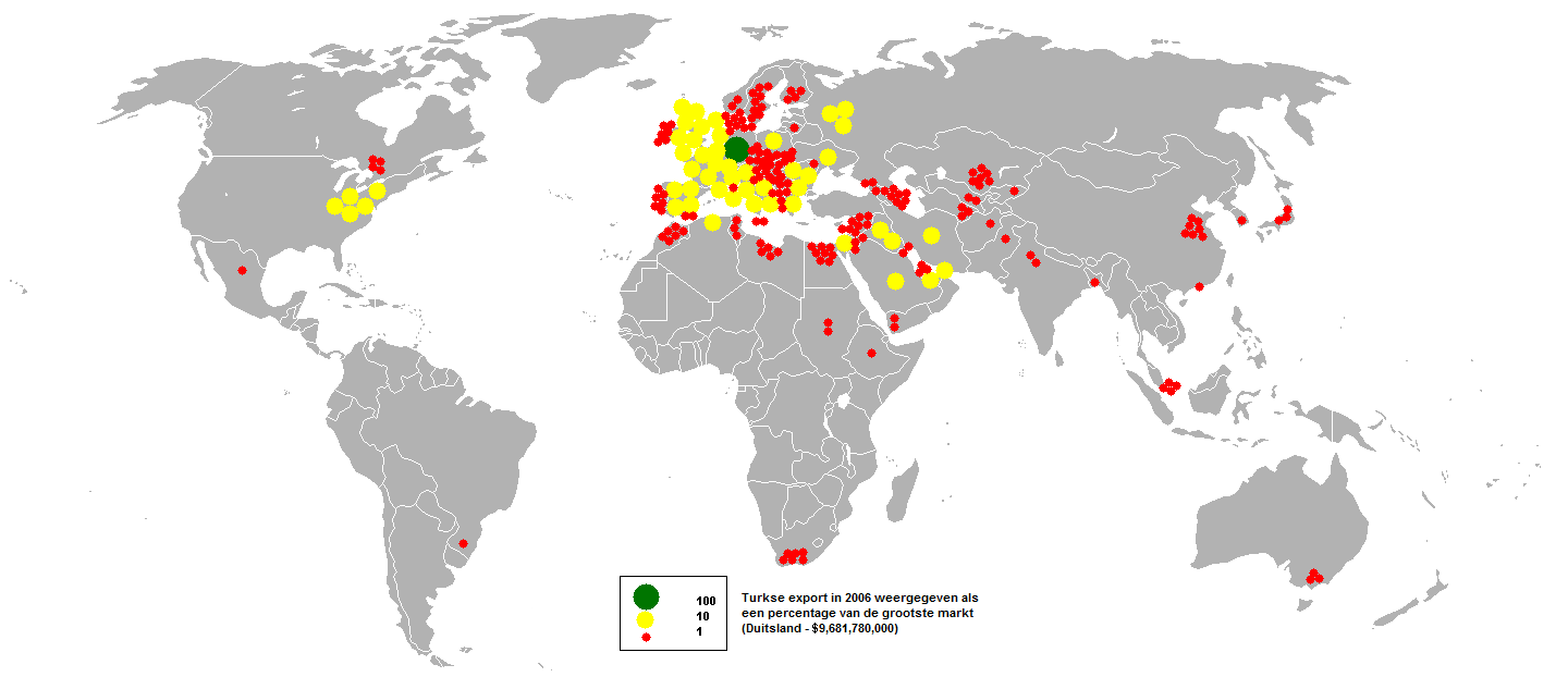 Dutch version of Image:2006Turkish exports.PNG: This bubble map shows the global distribution of Turkish exports in 2006 as a percentage of the top market (Germany - $9,681,780,000). This map is consistent with incomplete set of data too as long as the top producer is known. It resolves the accessibility issues faced by colour-coded maps that may not be properly rendered in old computer screens. Data was extracted on 18th September 2007 from Based on Image:BlankMap-World.png